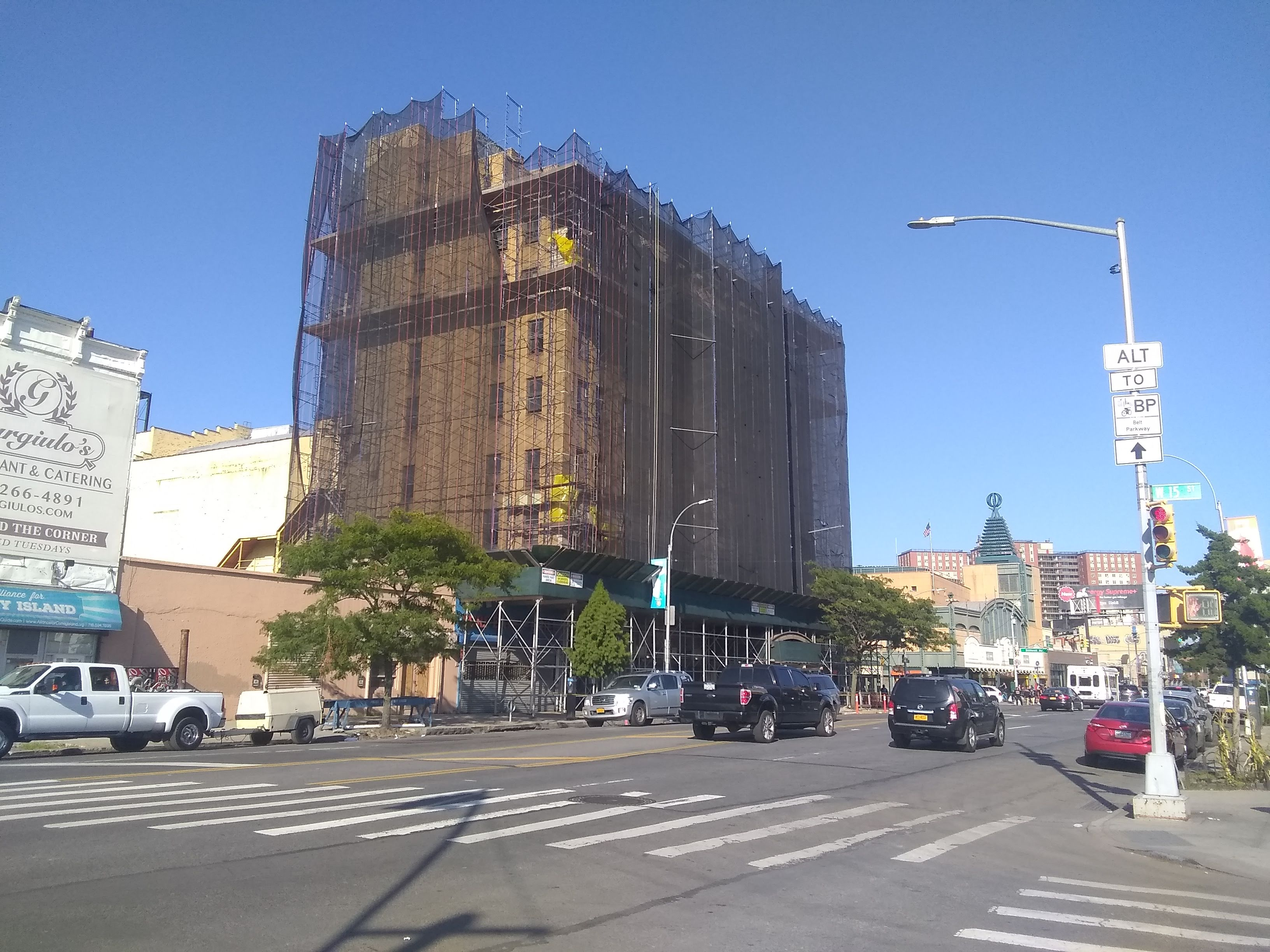 Coney Island in Brooklyn, New York, seen in September 2019. Surf Ave and Stillwell Avenue, looking east at the Shore Theater from West 16th Street